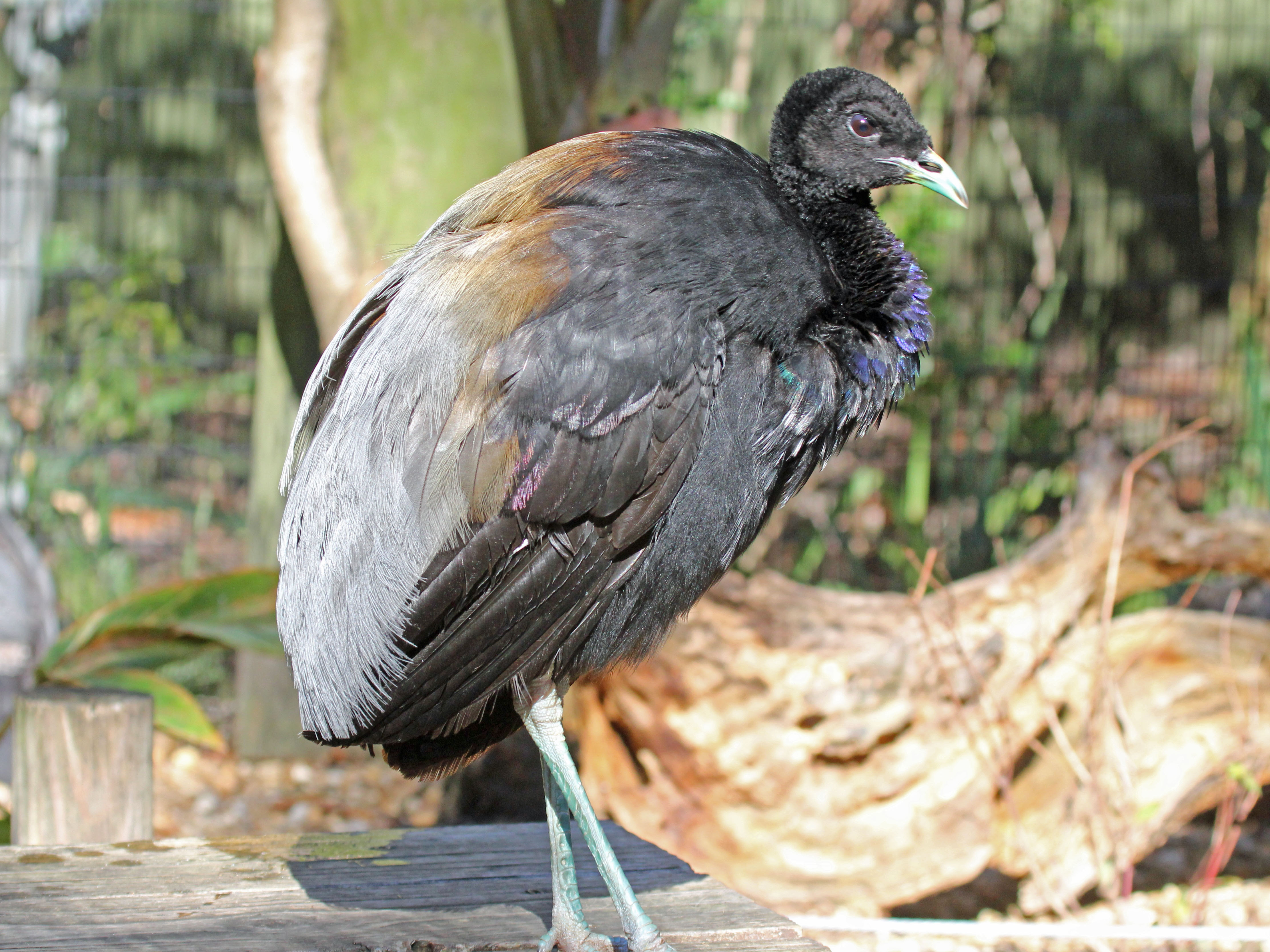 Grey-wing_Turmpeter (Psophia crepitans) at the Jacksonville Zoo in Florida